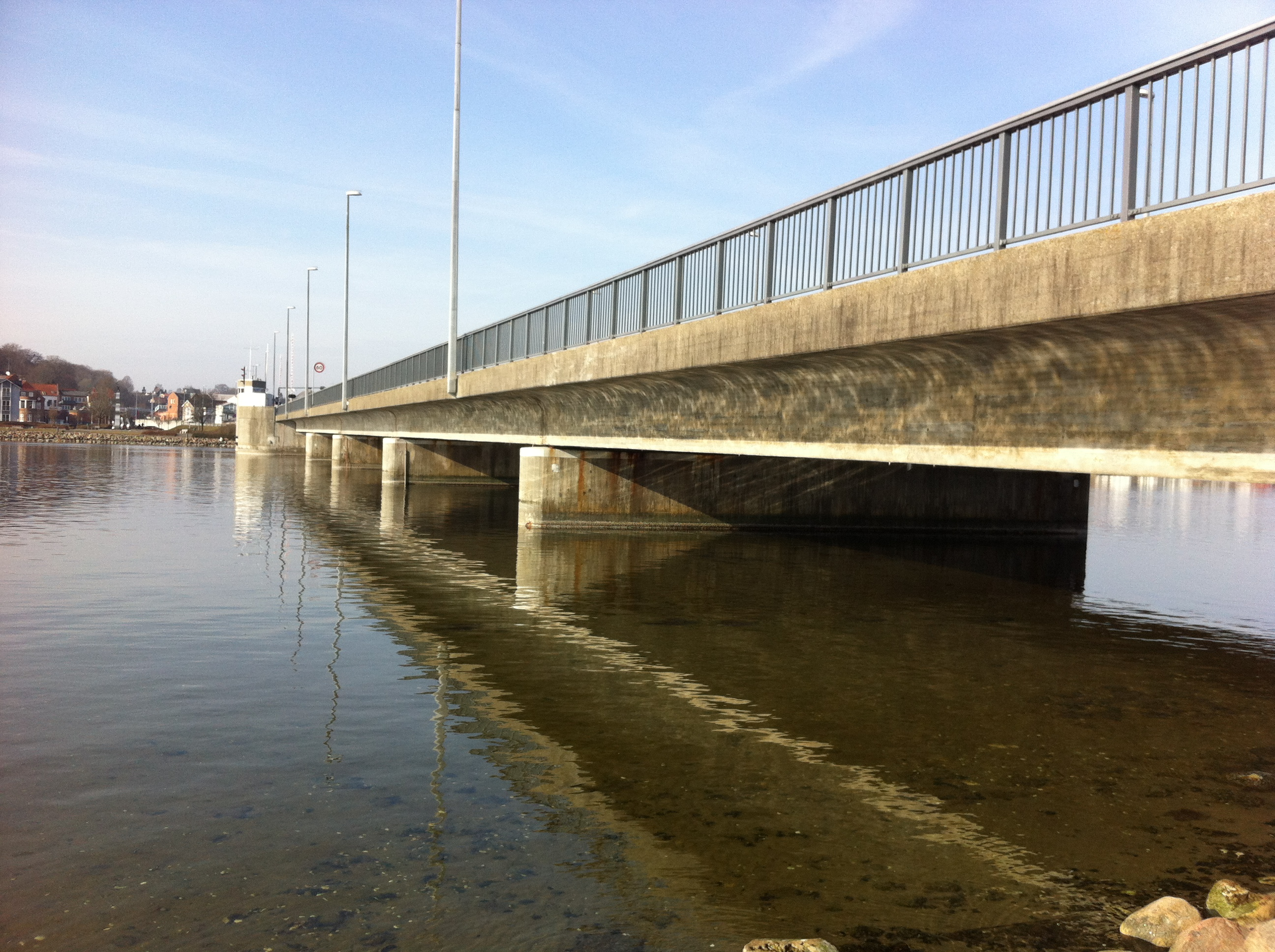 Hadsund bridge seen on 5 March 2013